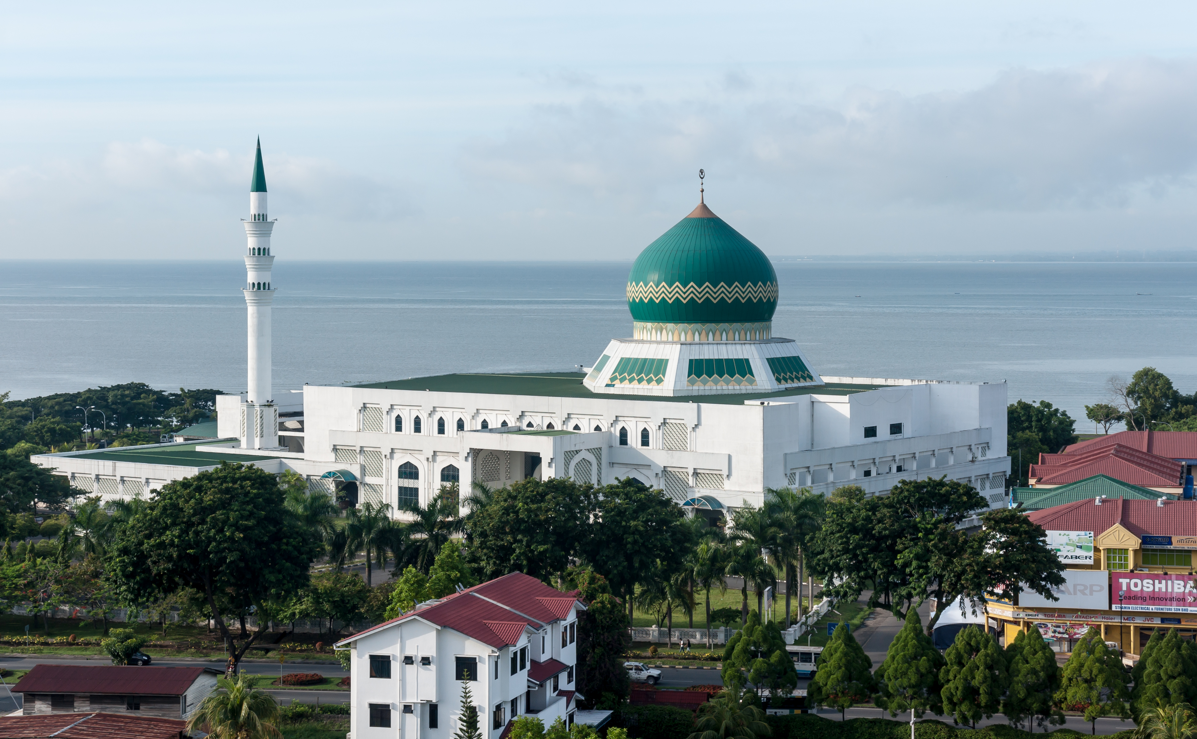 Tawau, Sabah: Al-Khauthar Mosque